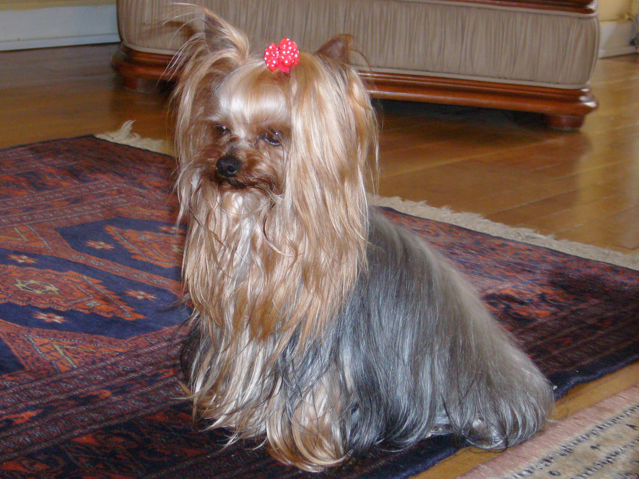 Description: Yorkshire Toy Name: Meet With Succes of Happy Blue Nickname : Simón Sex : Male Born : November 15th, 2002 Photographer: © Manuel González Olaechea y Franco Shot date : January, 29th, 2006